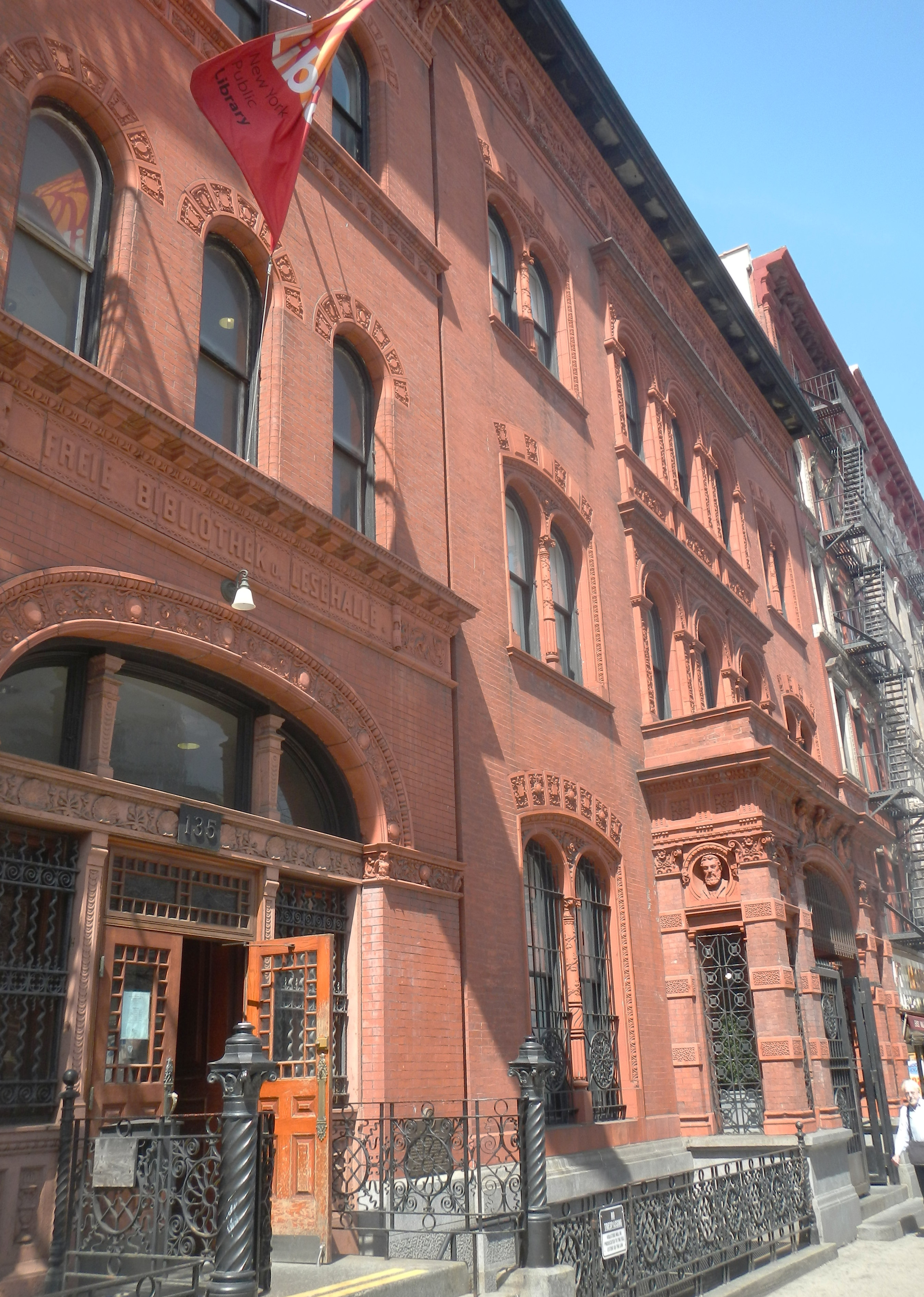 Looking north at library on a sunny middday.